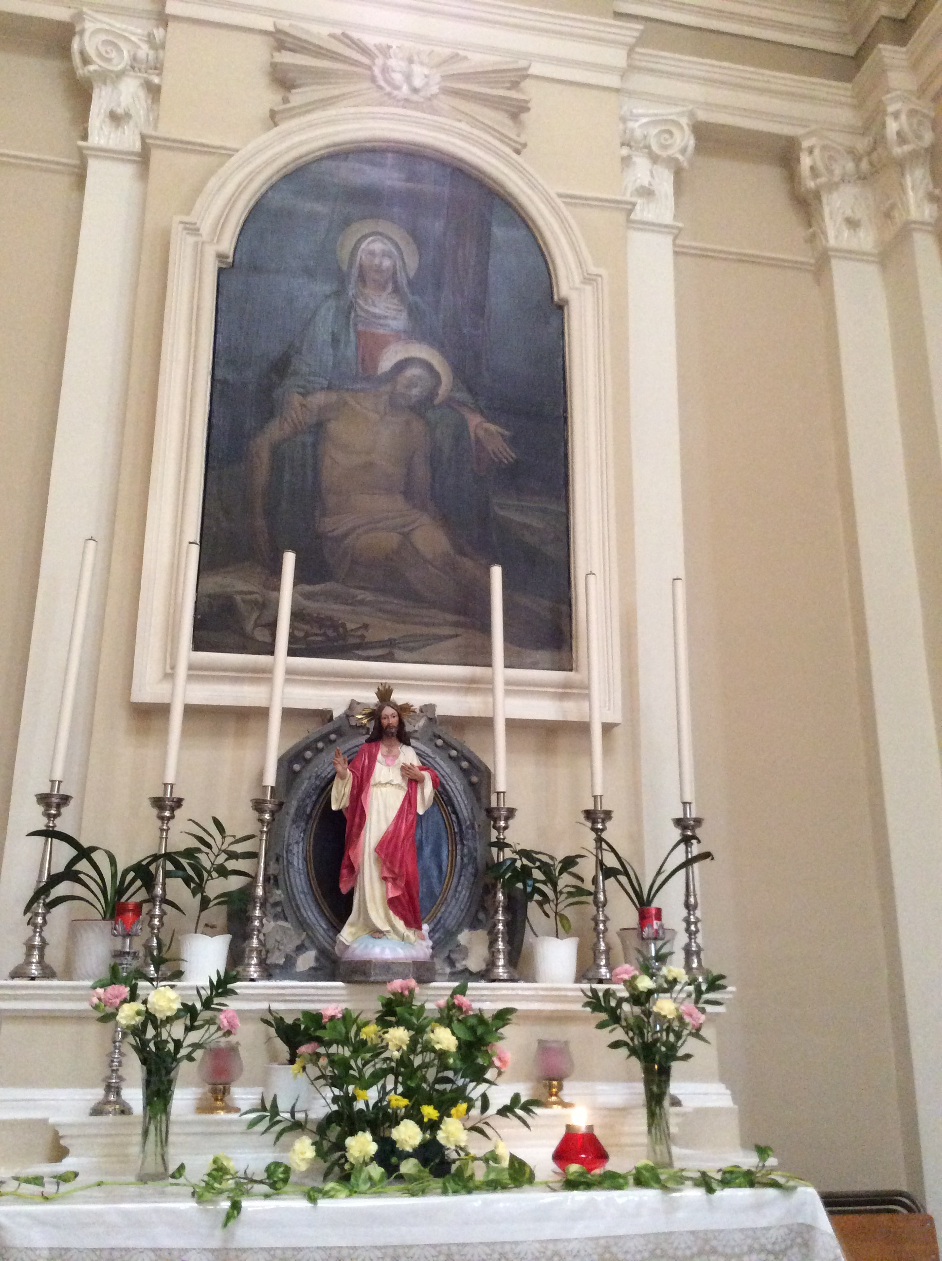 Chapel of the Holy Spirit, Żejtun